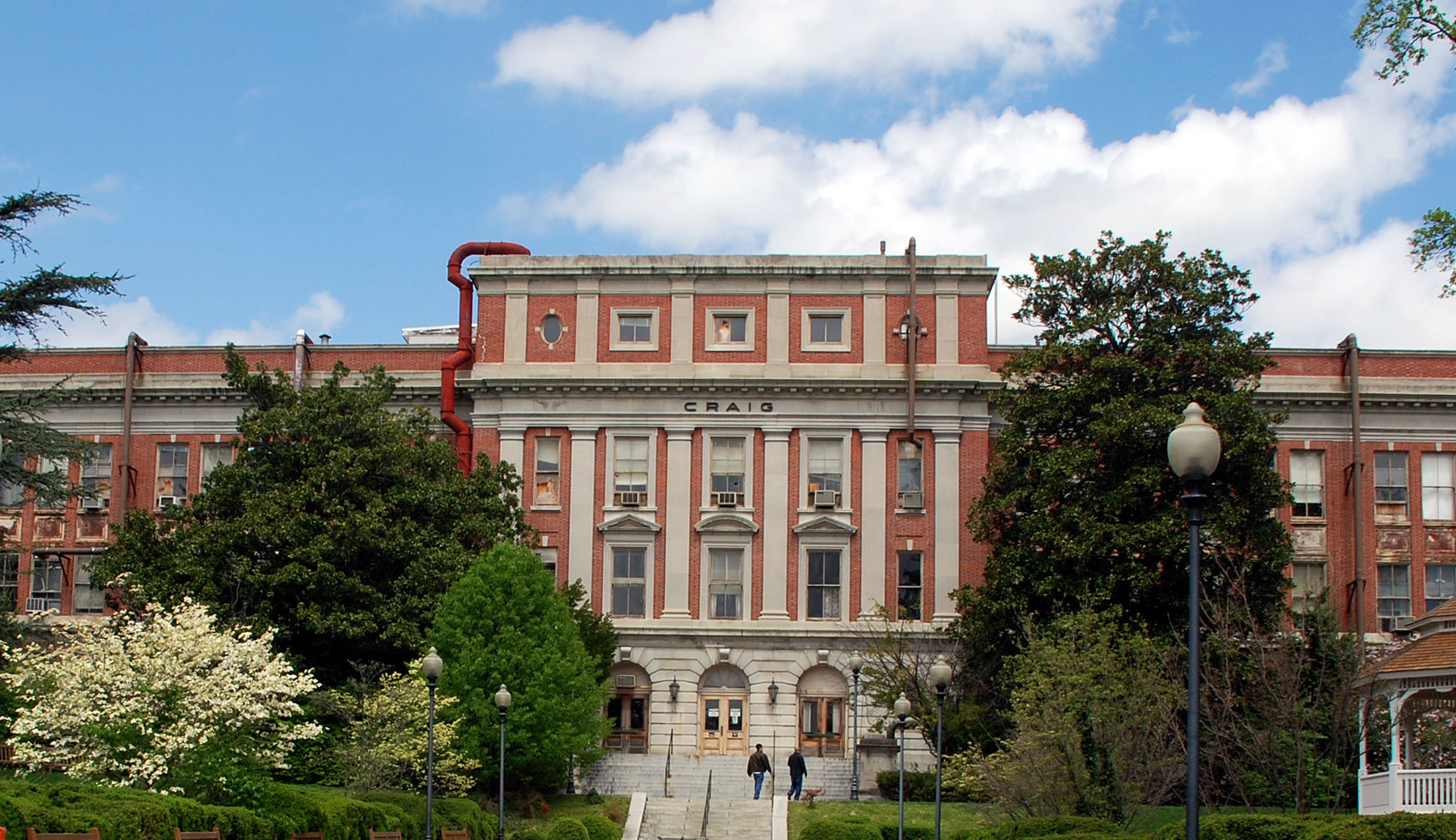 The old Walter Reed Army Institute of Research building, behind the post's Mologne House lodging facility on the medical center's campus in Washington, D.C., April 21, 2009, is no longer in use. DoD photo by Samantha L. Quigley